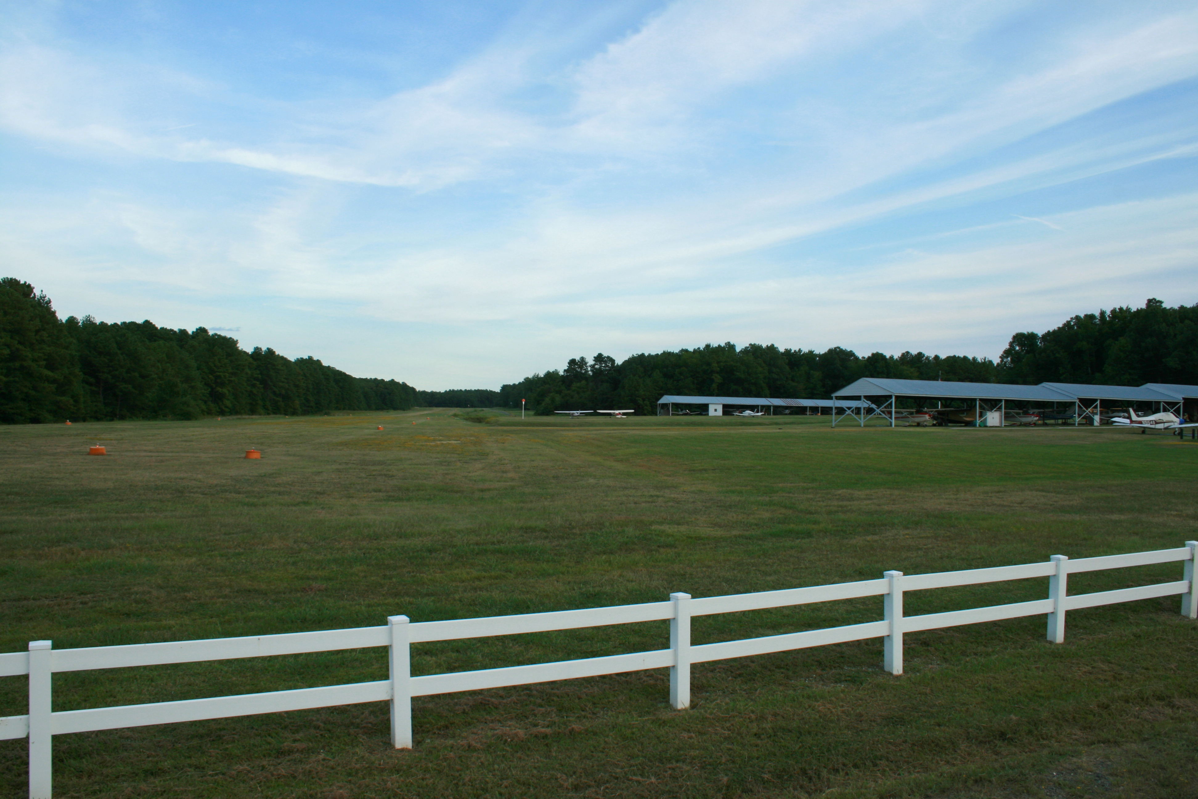 View of Runway 14 of Lake Ridge Airfield (8NC8), a 3000' grass airstrip on Falls Lake in Durham, North Carolina.